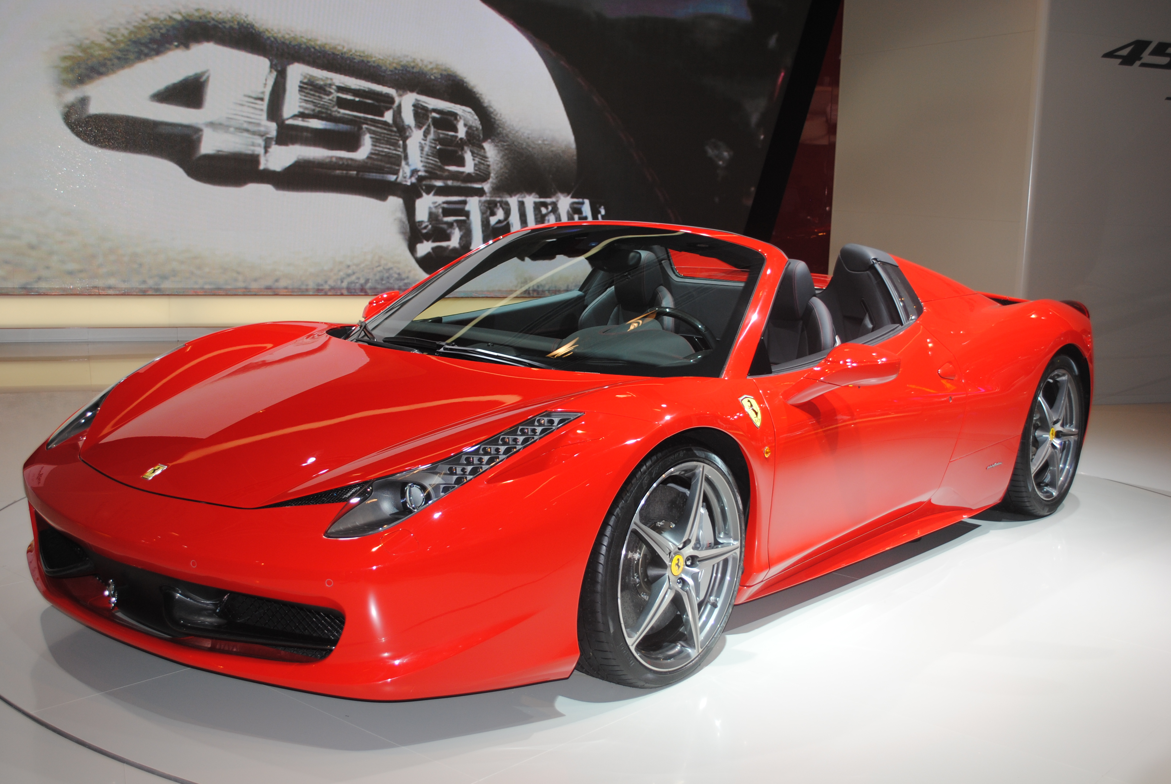 More boys and info